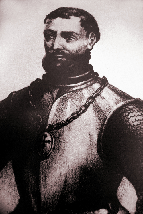 Francisco Hernández de Cordoba (d. 1517) — Spanish explorer of southern Mexico and Central America. Active in the 16th century Viceroyalty of New Spain. The conquistador of the Yucatán. Credits Photography of a painting, adapted reproduction, no restrictions on use